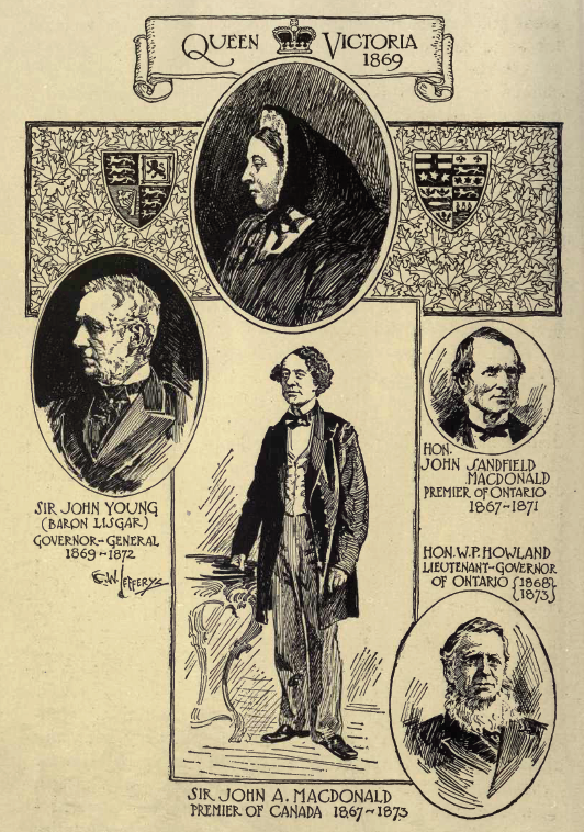 An image representing Ontario in 1869, from a book commemorating the 50th anniversary of the Eaton's department store (founded in 1869). The images are of the leaders of the country and province in 1869: the monarch (Queen Victoria), the Governor General of Canada (Sir John Young), the Prime Minister (Sir John A. Macdonald), the Premier of Ontario (John Sandfield Macdonald) and the Lieutenant-Governor of Ontario (W.P. Howland).